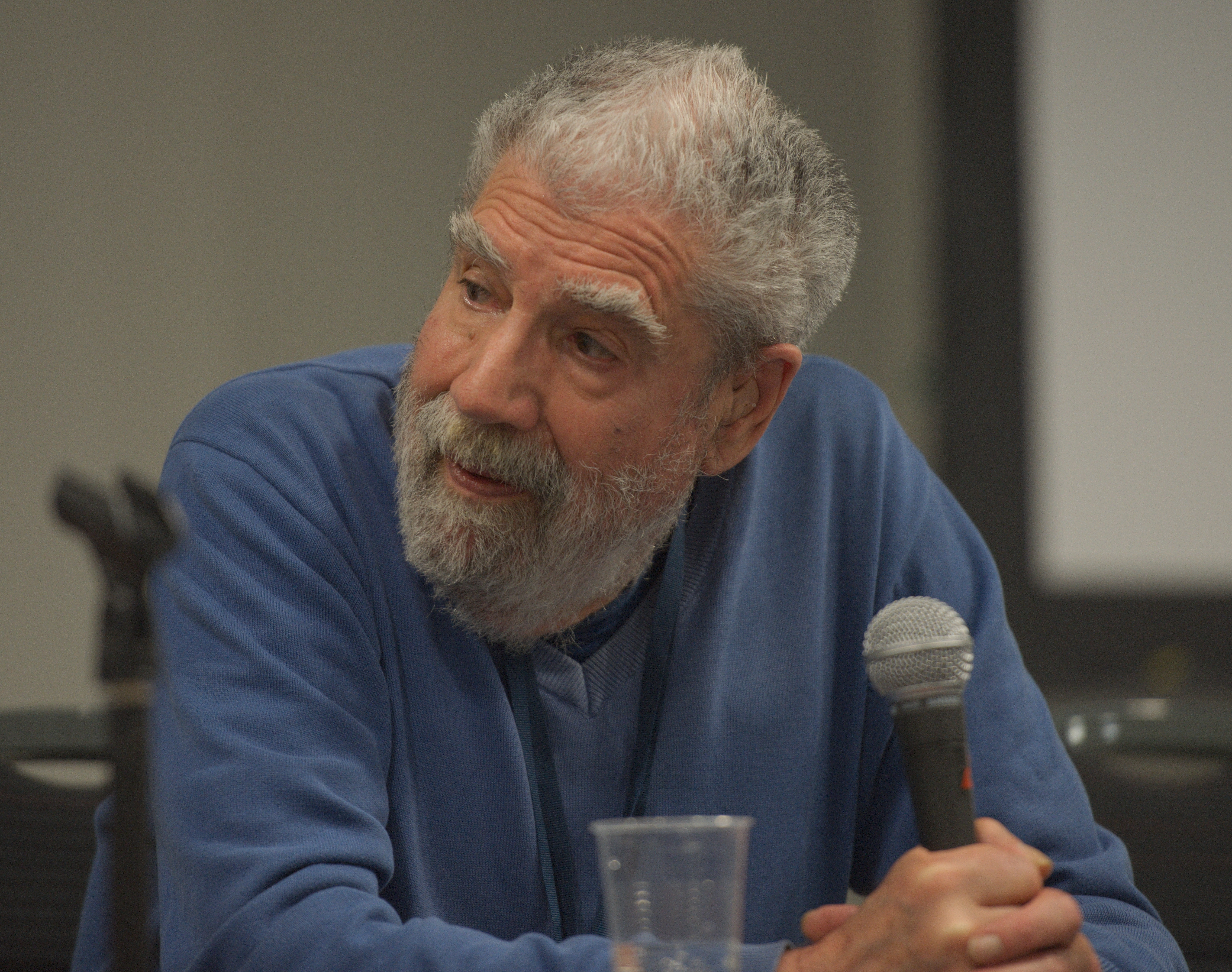 Peter Nicholls discussing The Encyclopedia of Science Fiction at Loncon, Worldcon 2014.